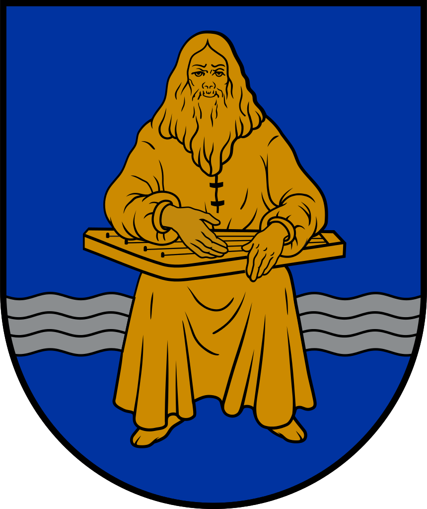 Coat of arms of Burtnieki Municipality, Latvia